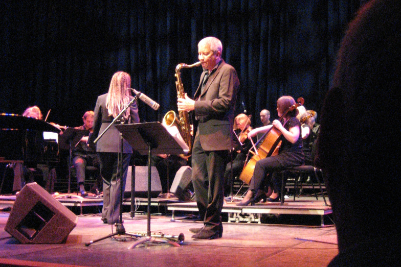 Image by _mattxb, posted on Flickr under Creative Commons Attribution Generic license. Obtained from on 9th September 2008